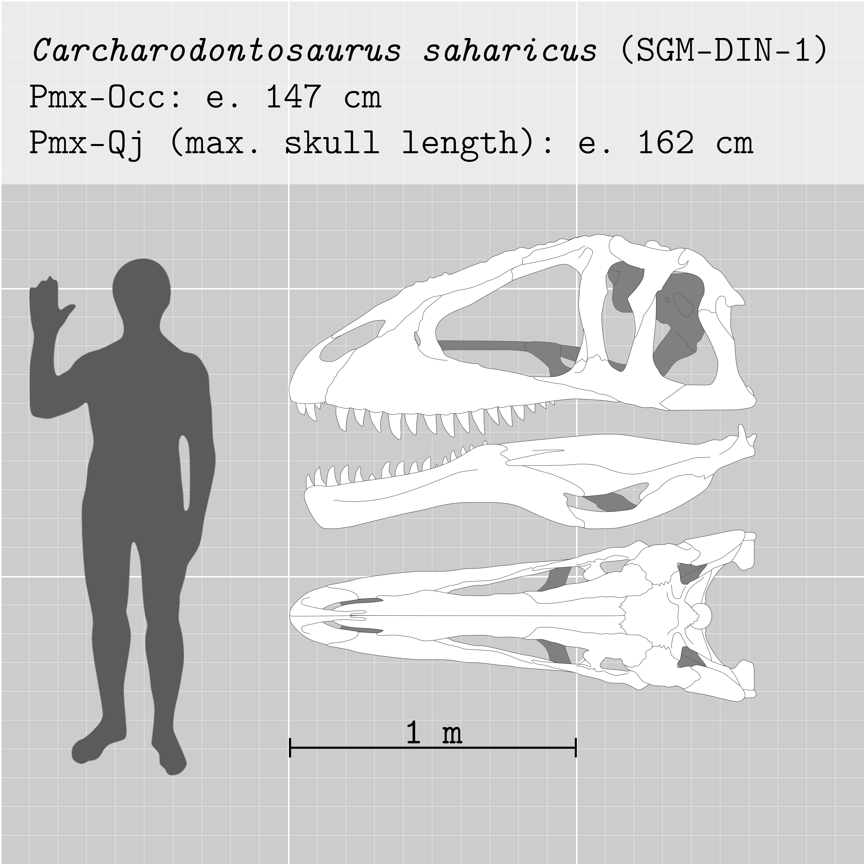 Skull reconstruction of Carcharodontosaurus saharicus specimen SGM DIN 1 (Sereno et al., 1996), a giant carcharodontosaur from the Cenomanian of North Africa. Known elements after Sereno et al., 1996 Missing elements restored after Acrocanthosaurus (Currie & Carpenter, 2000), squared mandibular symphysis based on Giganotosaurus.